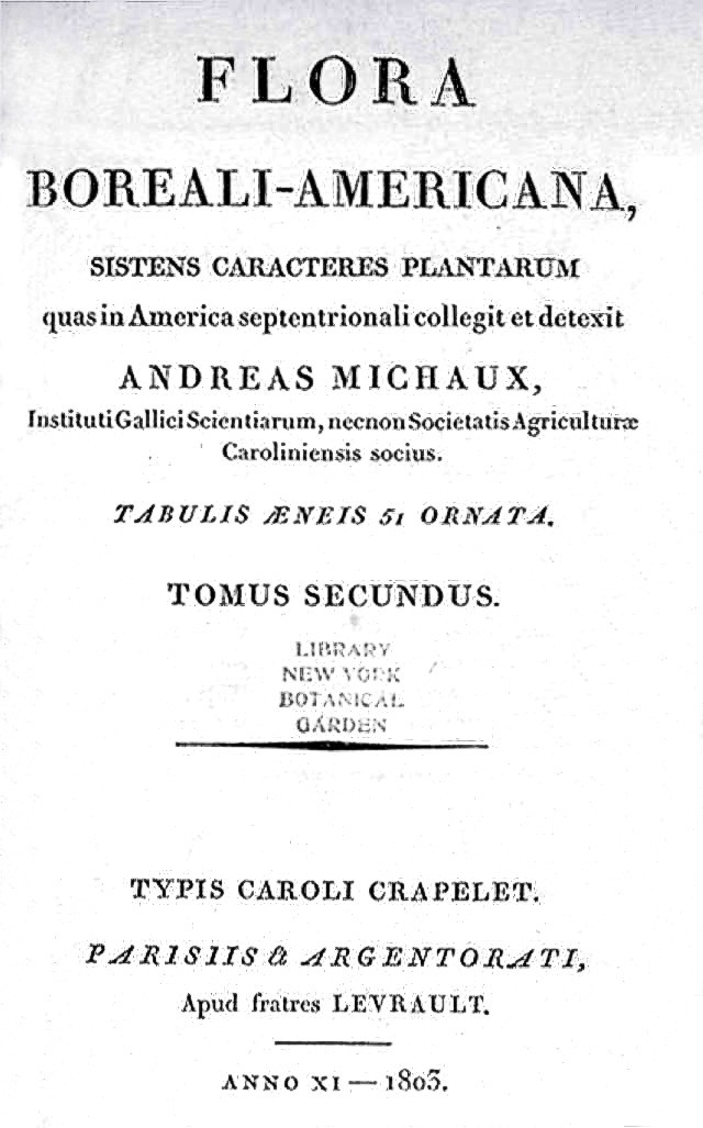 Title page of "Flora Boreali-Americana"